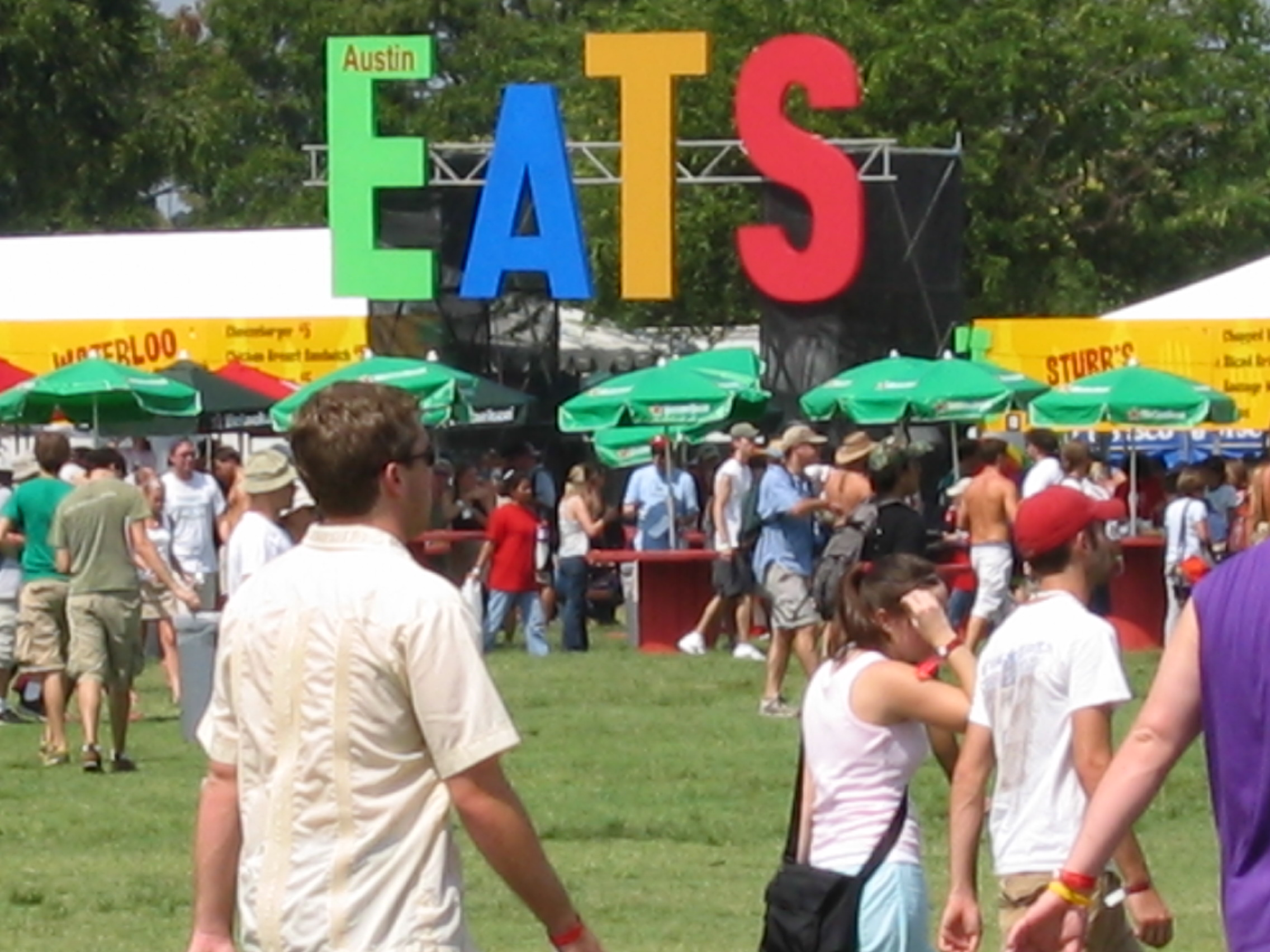 Taken at the 2004 Austin City Limits Music Festival.